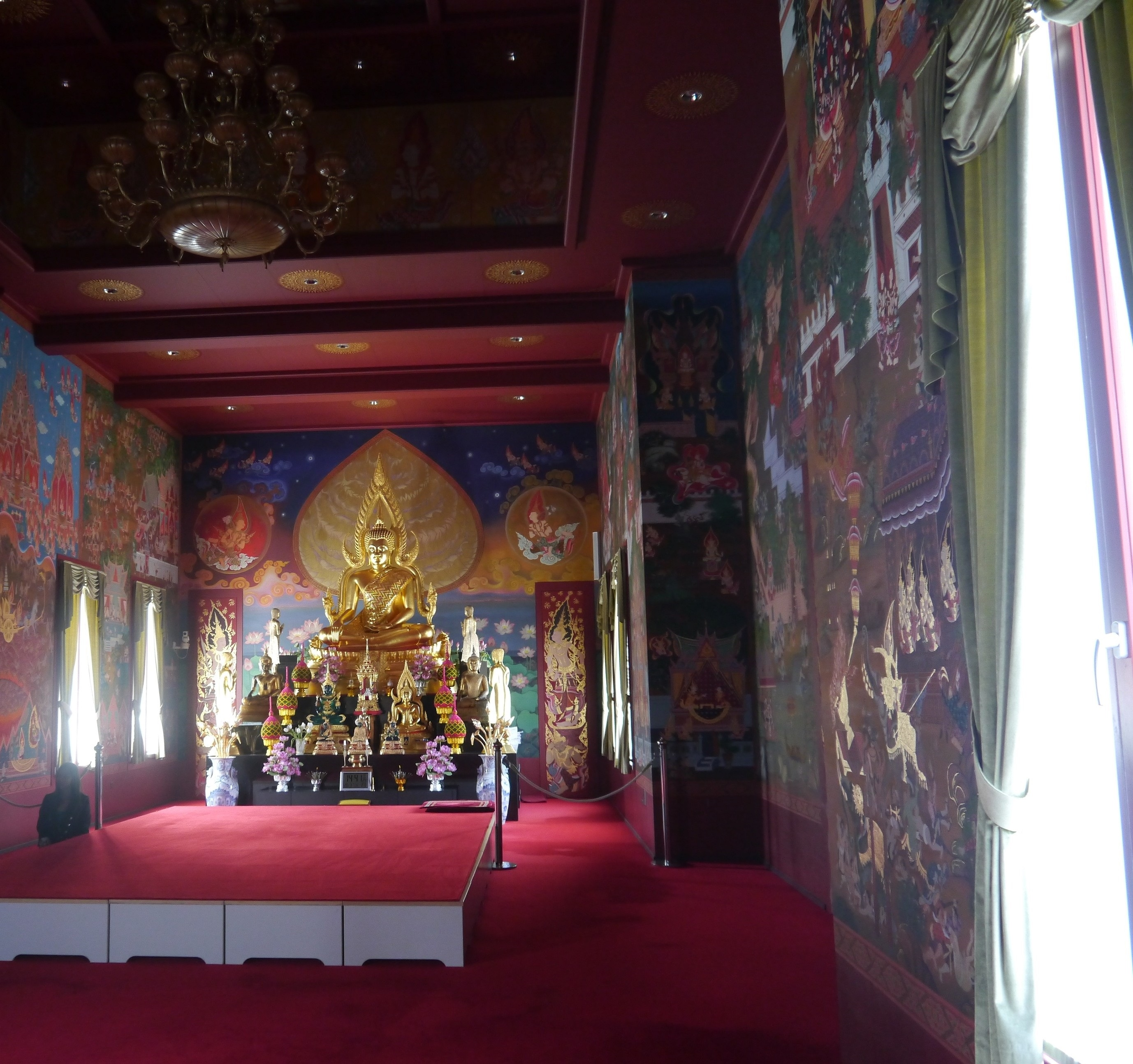 Interior of Wat Srinagarindvaram, Gretzenbach